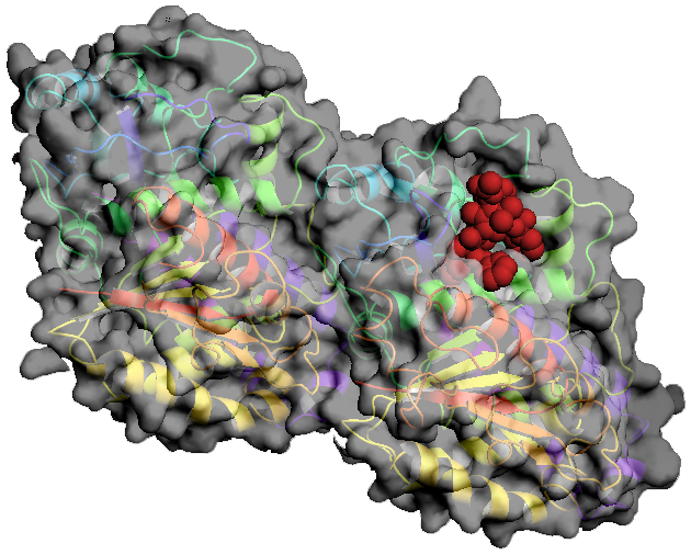 Taxol and tubulin